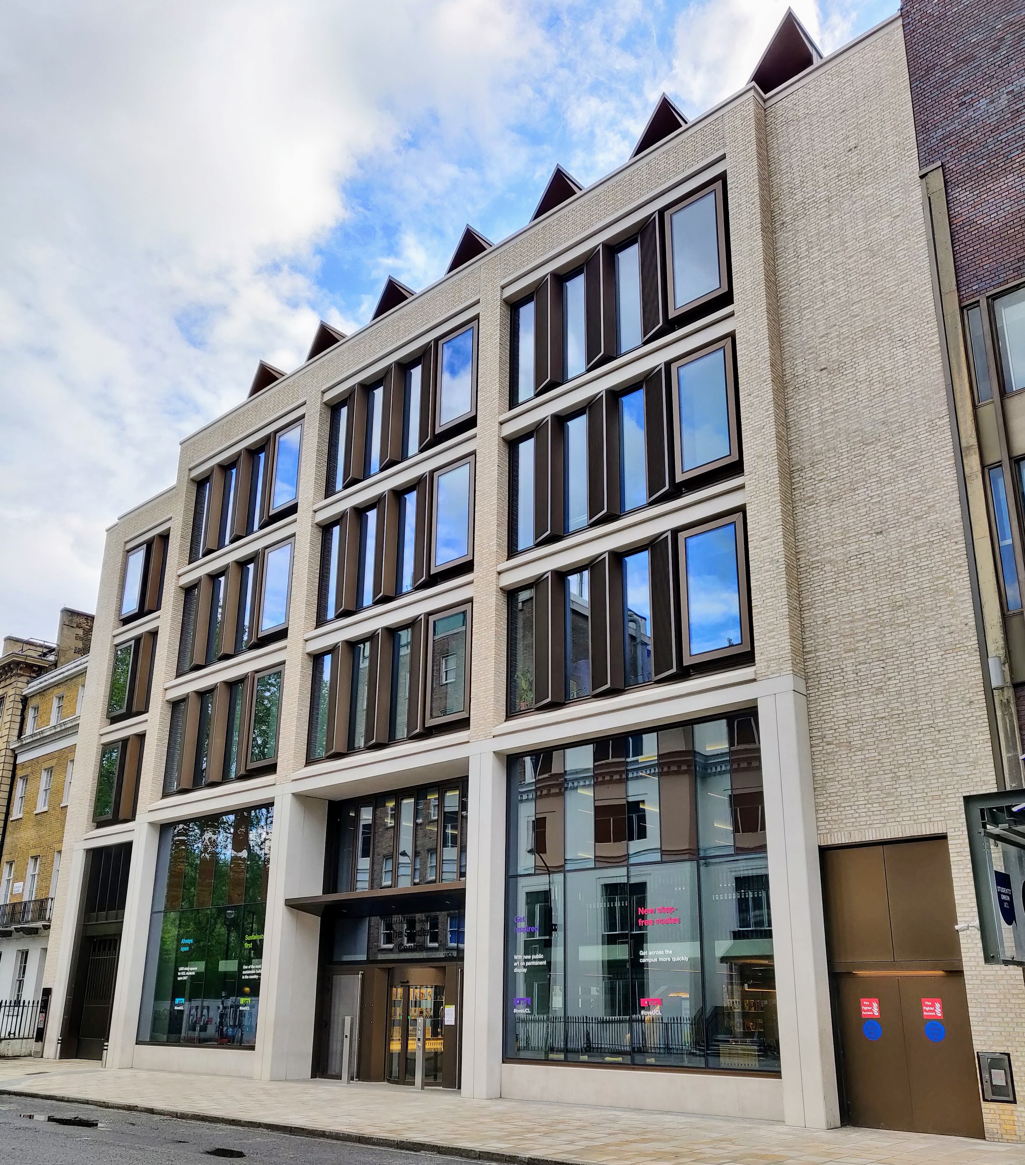 The new student centre provides the main Gordon Street entrance to the college, with a main open route through the building to the Wilkins Building and main quad.